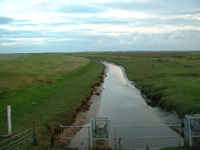 River Cocker. Looking downstream. The river joins the Lune Estuary just over 1km away.